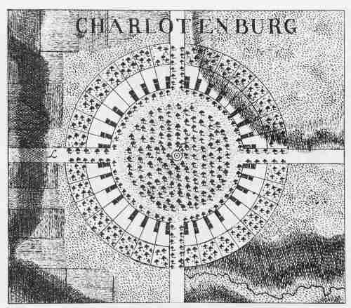 1780 plan of Charlotenburg village, Banat, now Romania